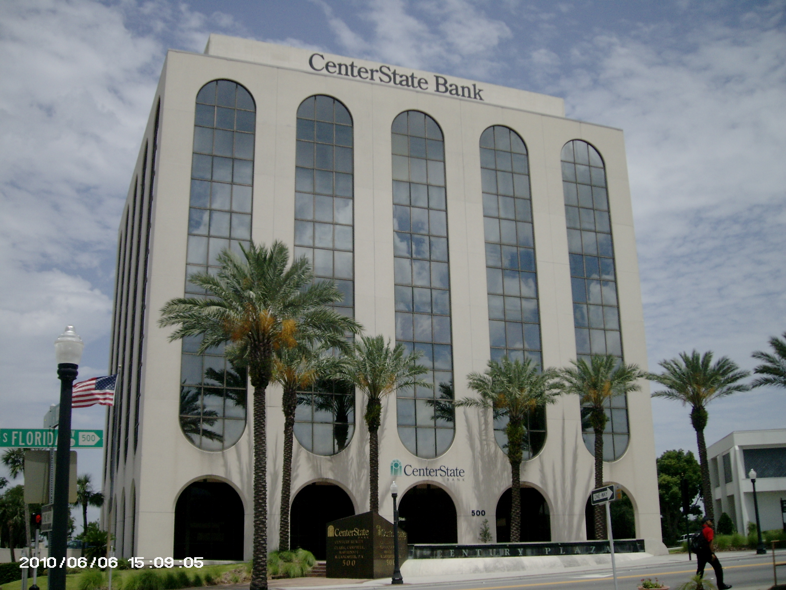 This is the Century Plaza building in downtown Lakeland, FL.